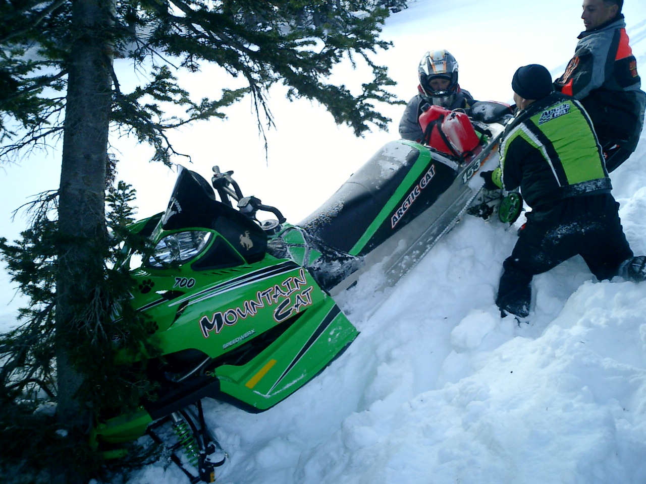 Location: Wyoming Range Date: 12/18/05 Author: SummitXrider